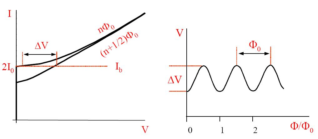 IV Curve SQUID